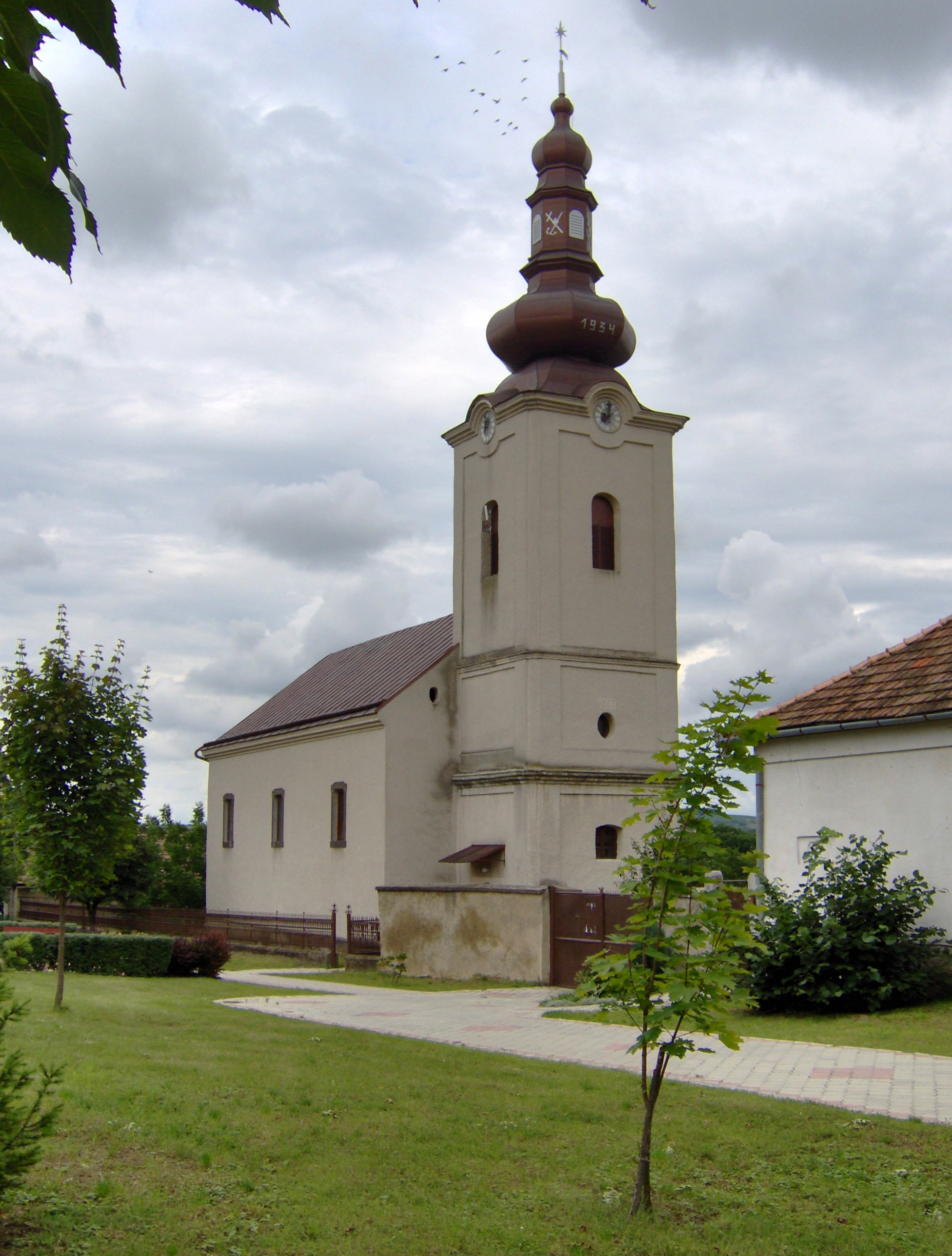 Mýtne Ludany